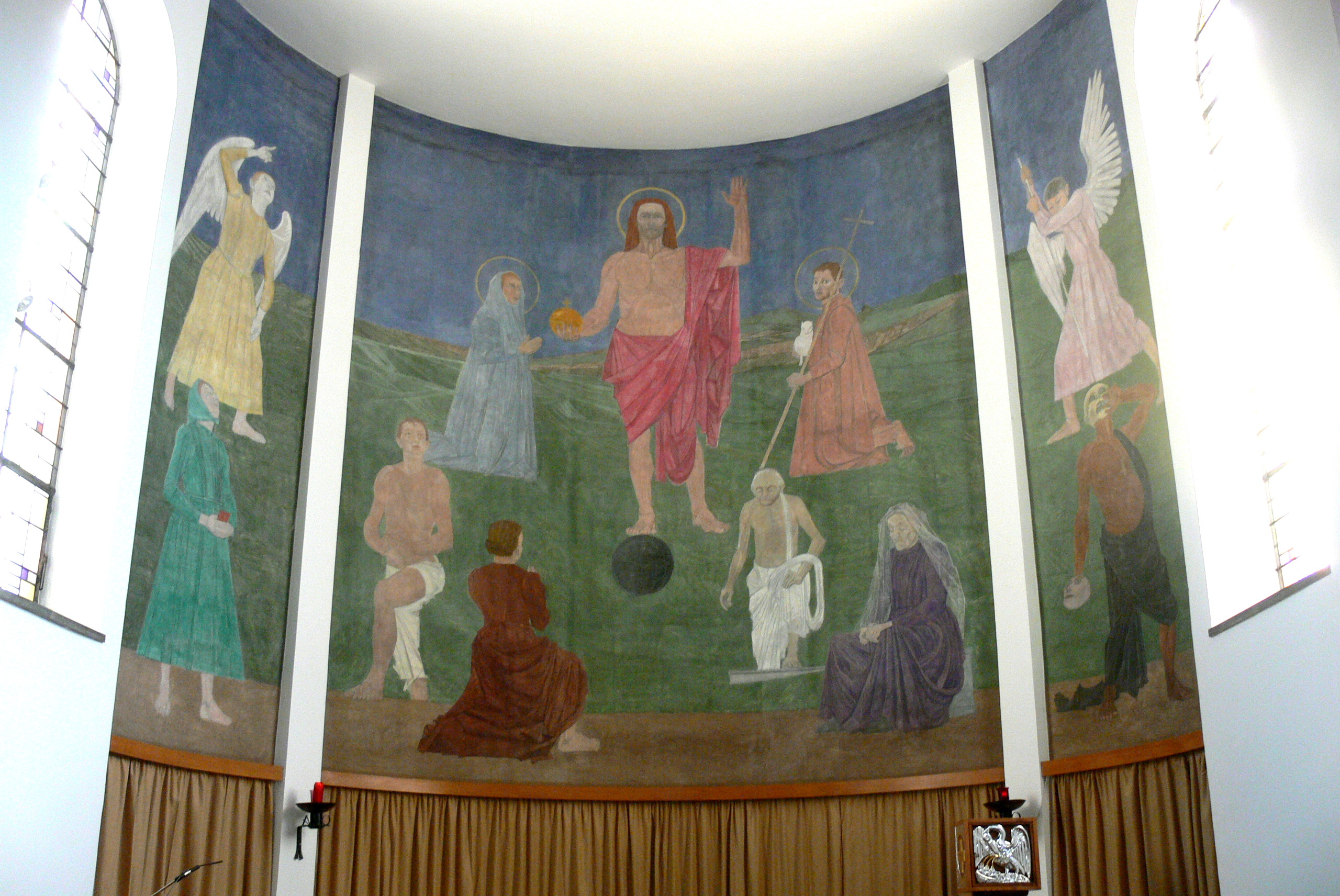 Saint Giles parish church in Oberkappel ( Upper Austria ). Fresco of Last Judgment ( 1956 ) by Johann Hazod.